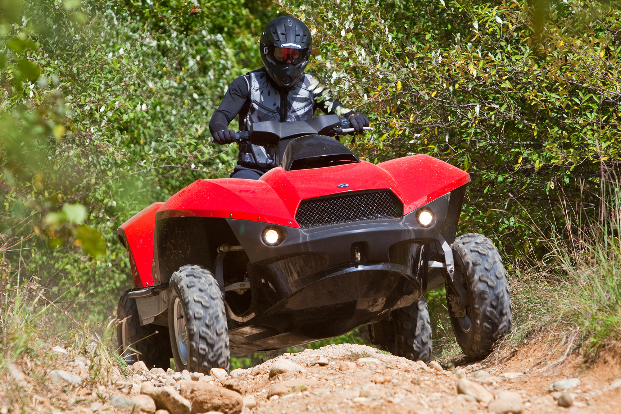 A picture of the quadski on land